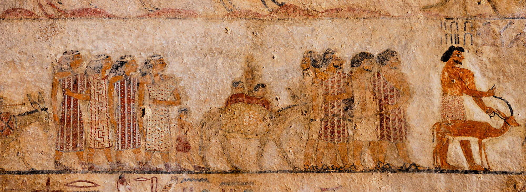 Semitic visiters to Egypt, in the Tomb of Knumhotep III, circa 1900 BCE